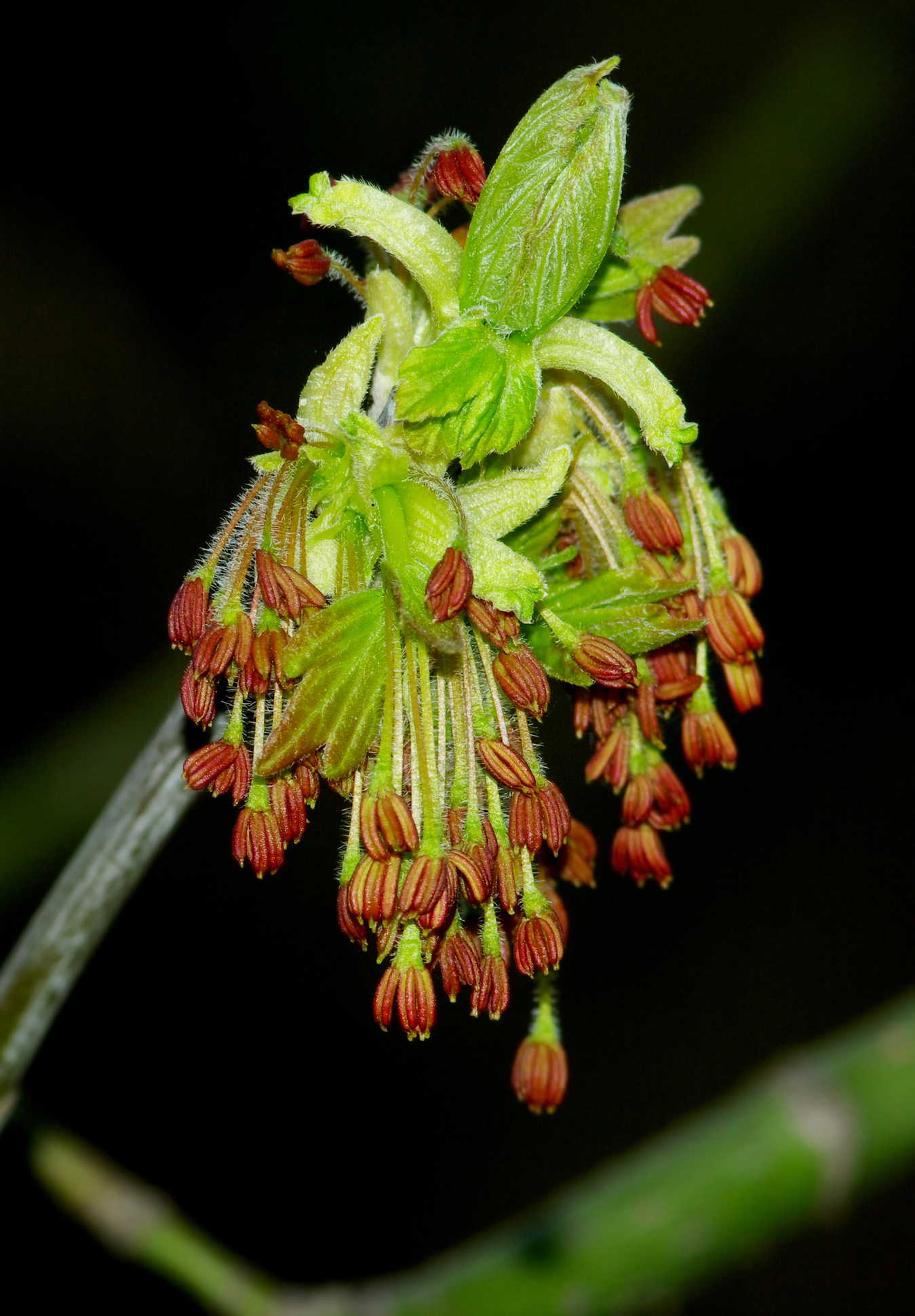 Acer negundo - male inflorescences